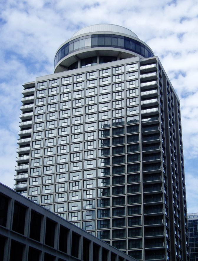 Taken by SimonP in August 2005